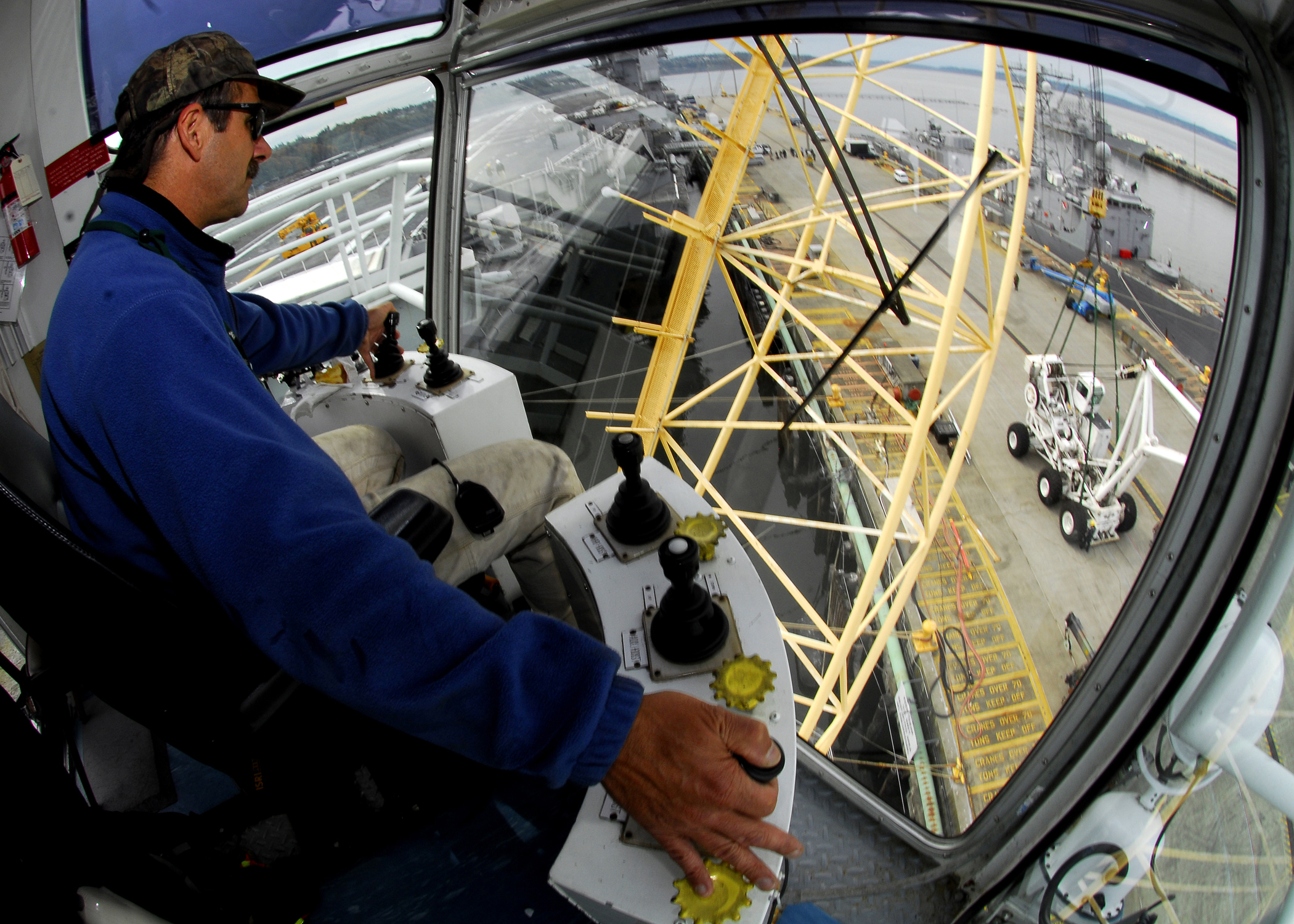 EVERETT, Wash. (Oct. 9, 2007) – A Puget Sound Naval Shipyard crane operator moves an emergency heavy lift crane from the flight deck of USS Abraham Lincoln (CVN 72) to the Naval Station Everett pier. The crane will undergo load testing at Naval Station Everett to recertify it for shipboard use before being loaded back aboard Lincoln. U.S. Navy photo by Mass Communication Specialist Seaman Brandon Wilson (RELEASED)